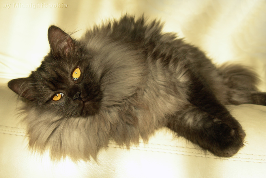 Lolo, the NFO